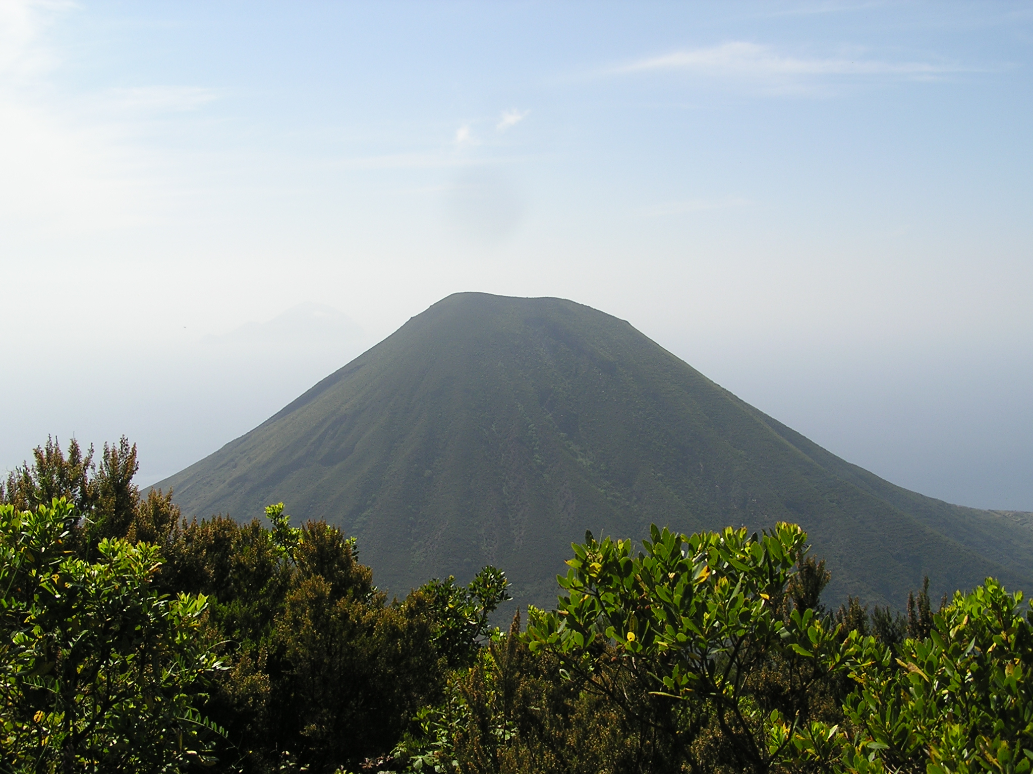 Monte Porri, Salina, Aeolian Islands in Italy